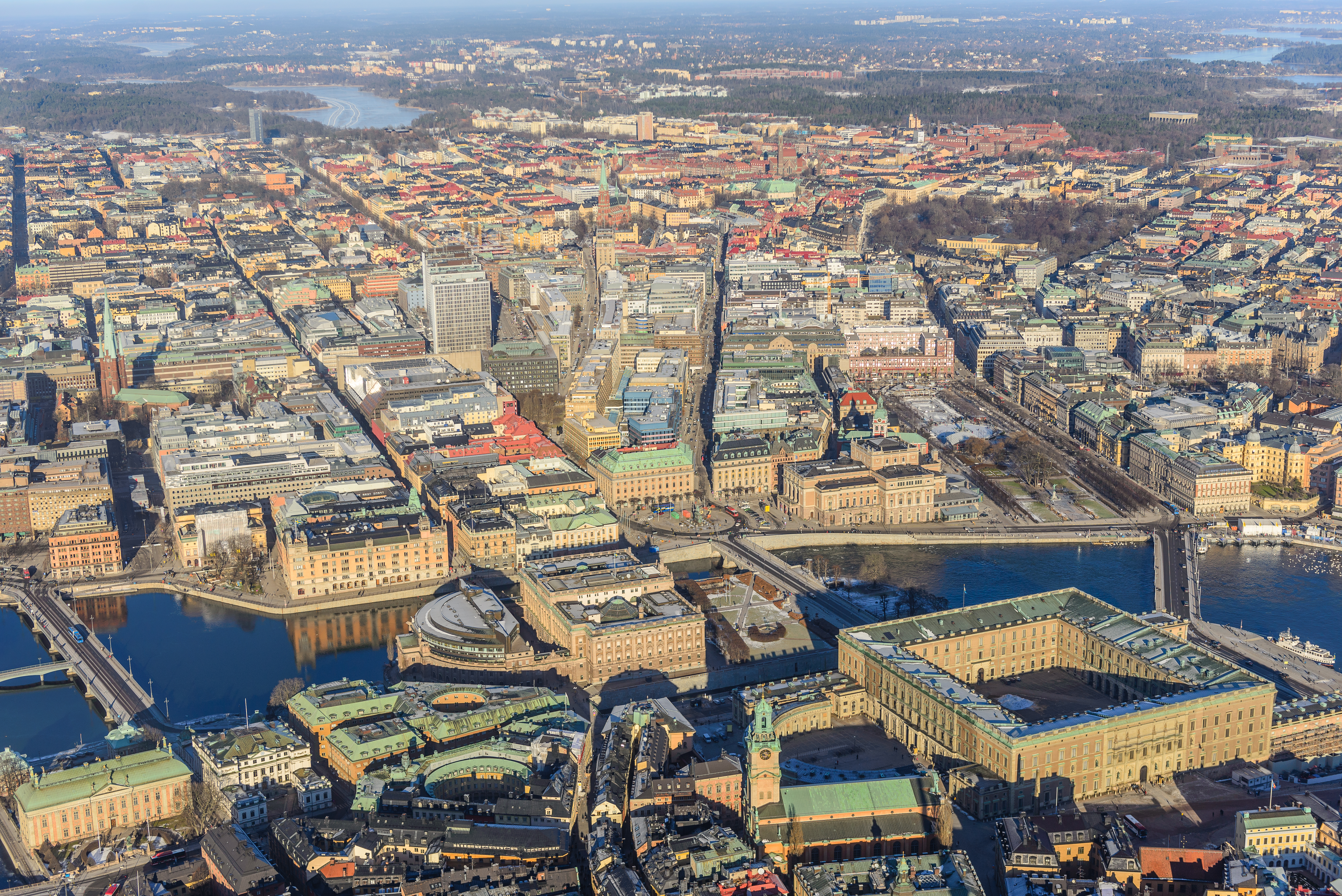 Central Stockholm.